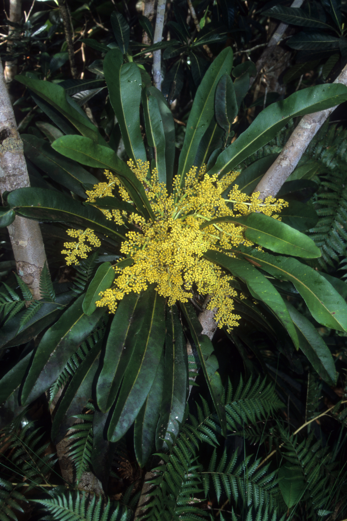 Riviere Bleue, New Caledonia. 30 Sep 2000. from slide.